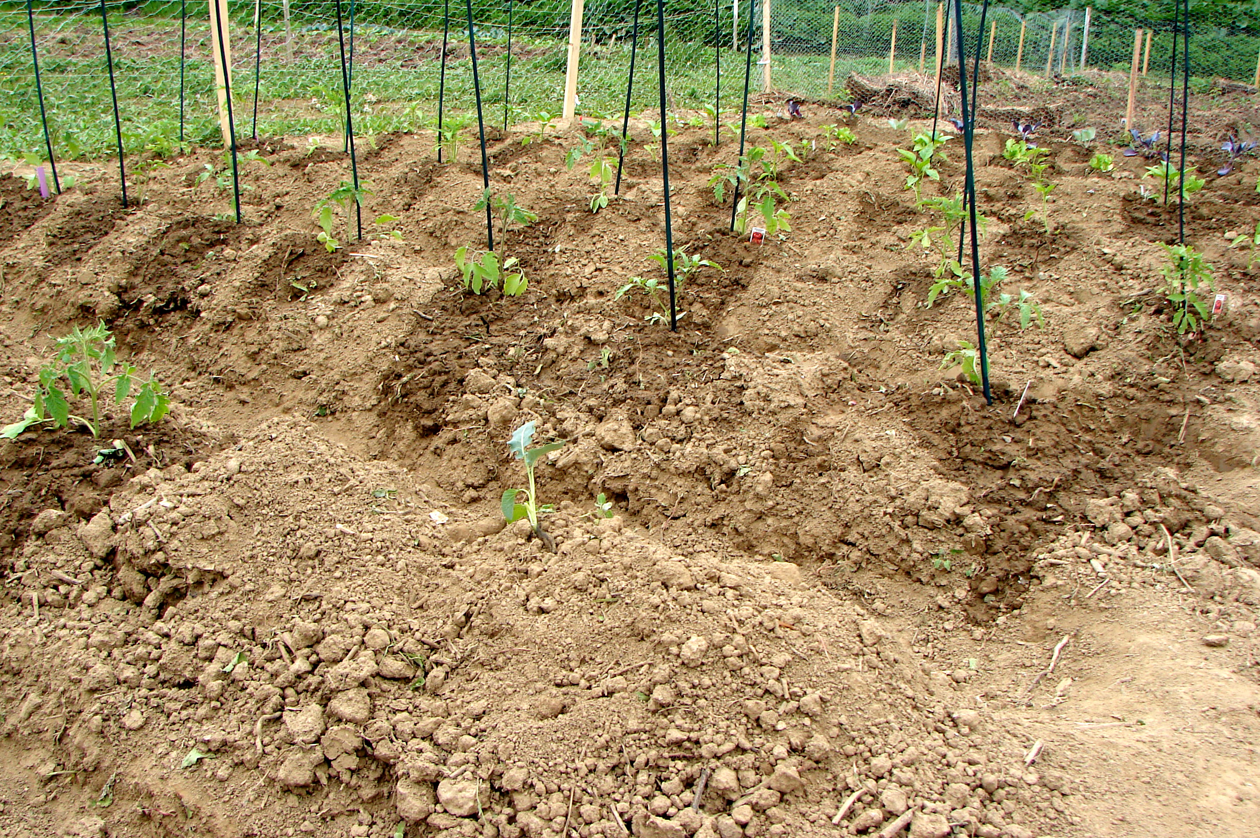 A photo of this years crops, we rent a plot 30 ft x 30 ft at Benjamin Rush State Park in far Northeast Philadelphia. These were just planted this weekend and in 8 to 10 weeks veggies for all!!!!